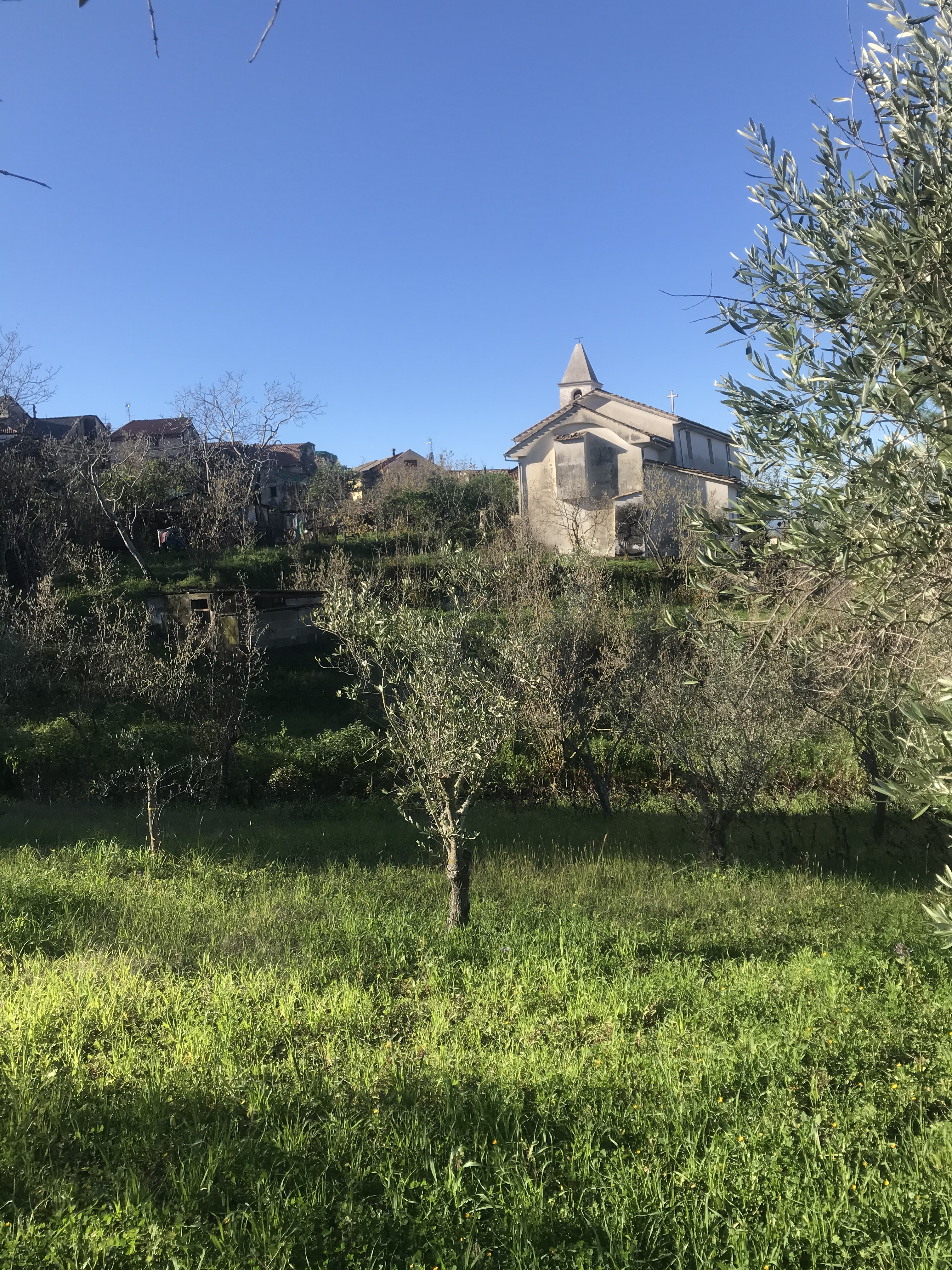 Prospect of the church